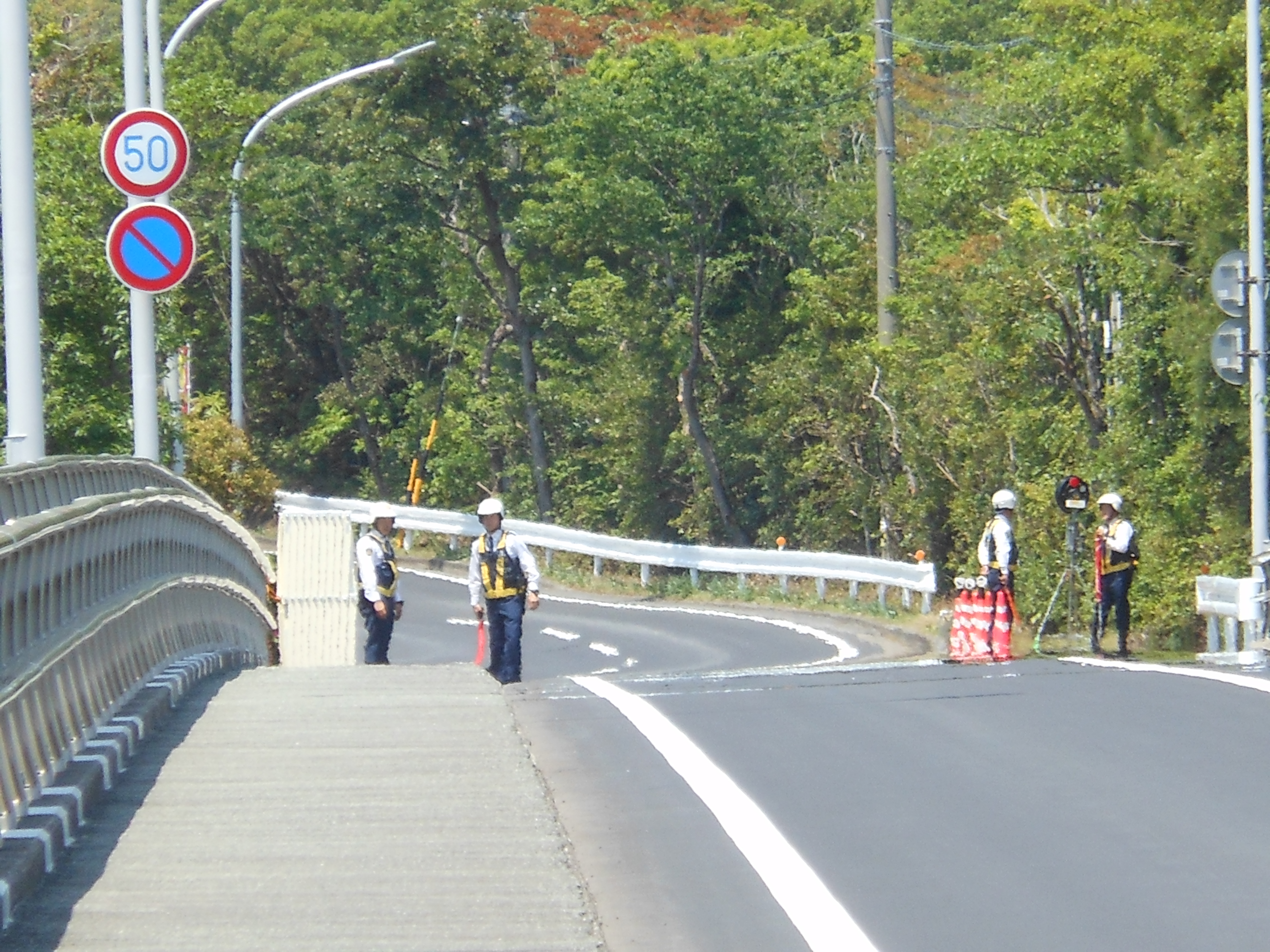 This was a checkpoint on Kashikojima Great Bridge, Shima, Mie, Japan. This checkpoint protected Kashiko Island, where hosted the G7 Ise-Shima Summit